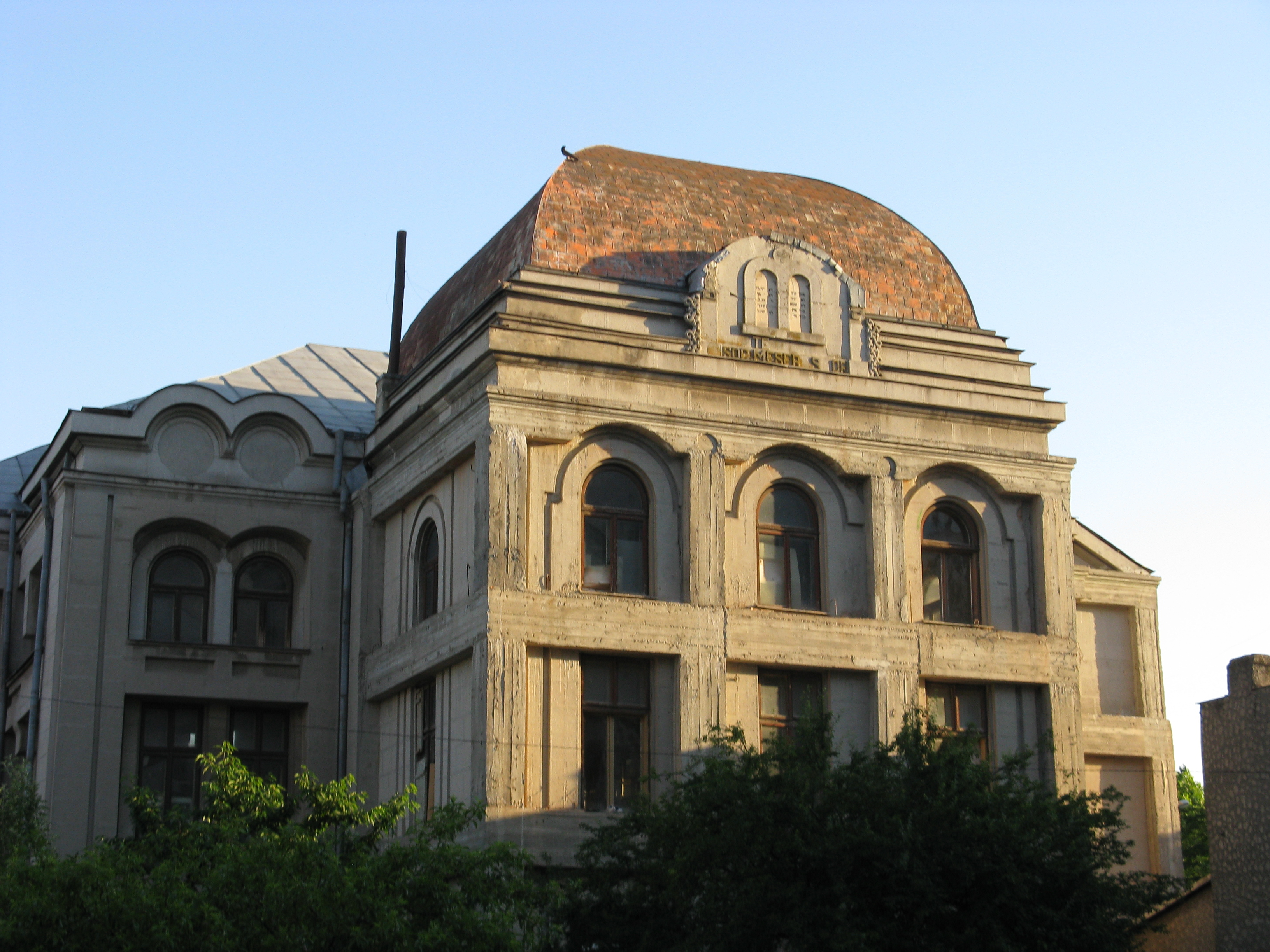 Templul Meseriaşilor din Galaţi